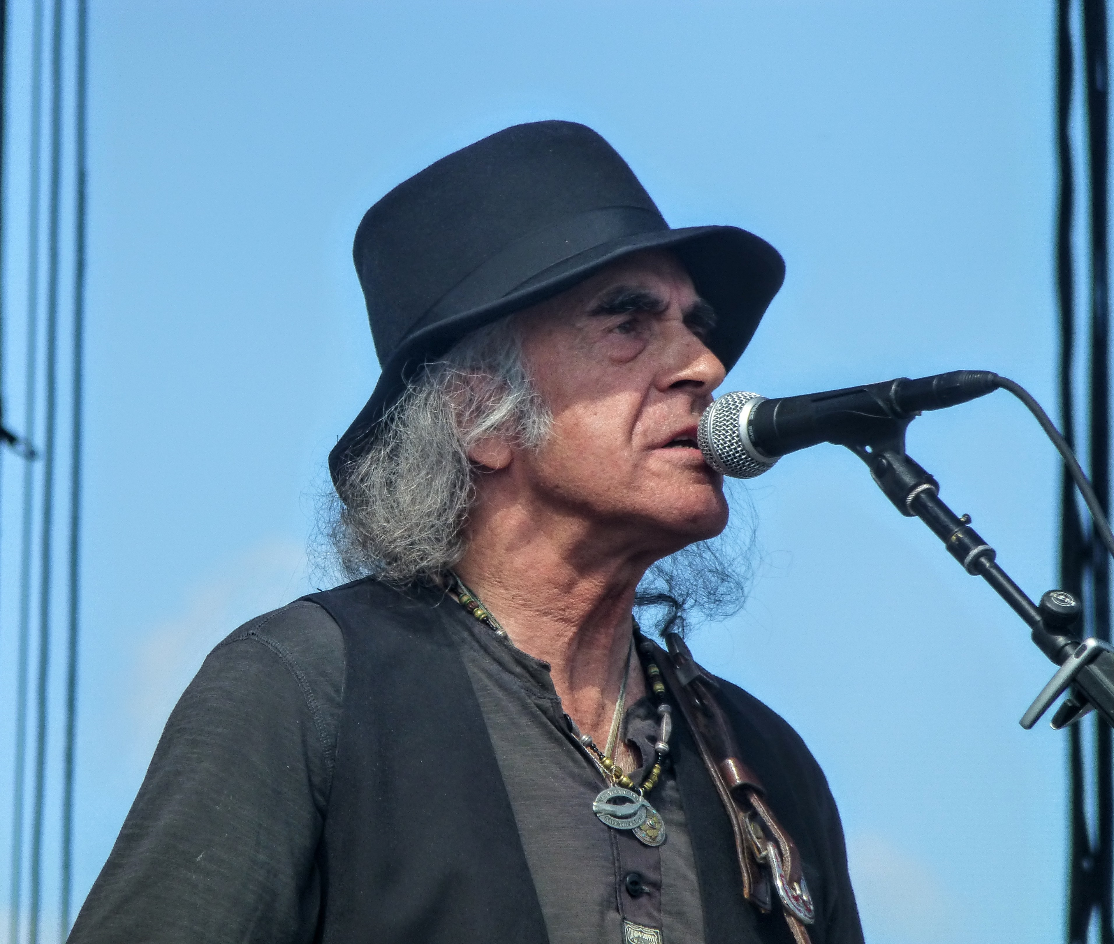 Moonalice